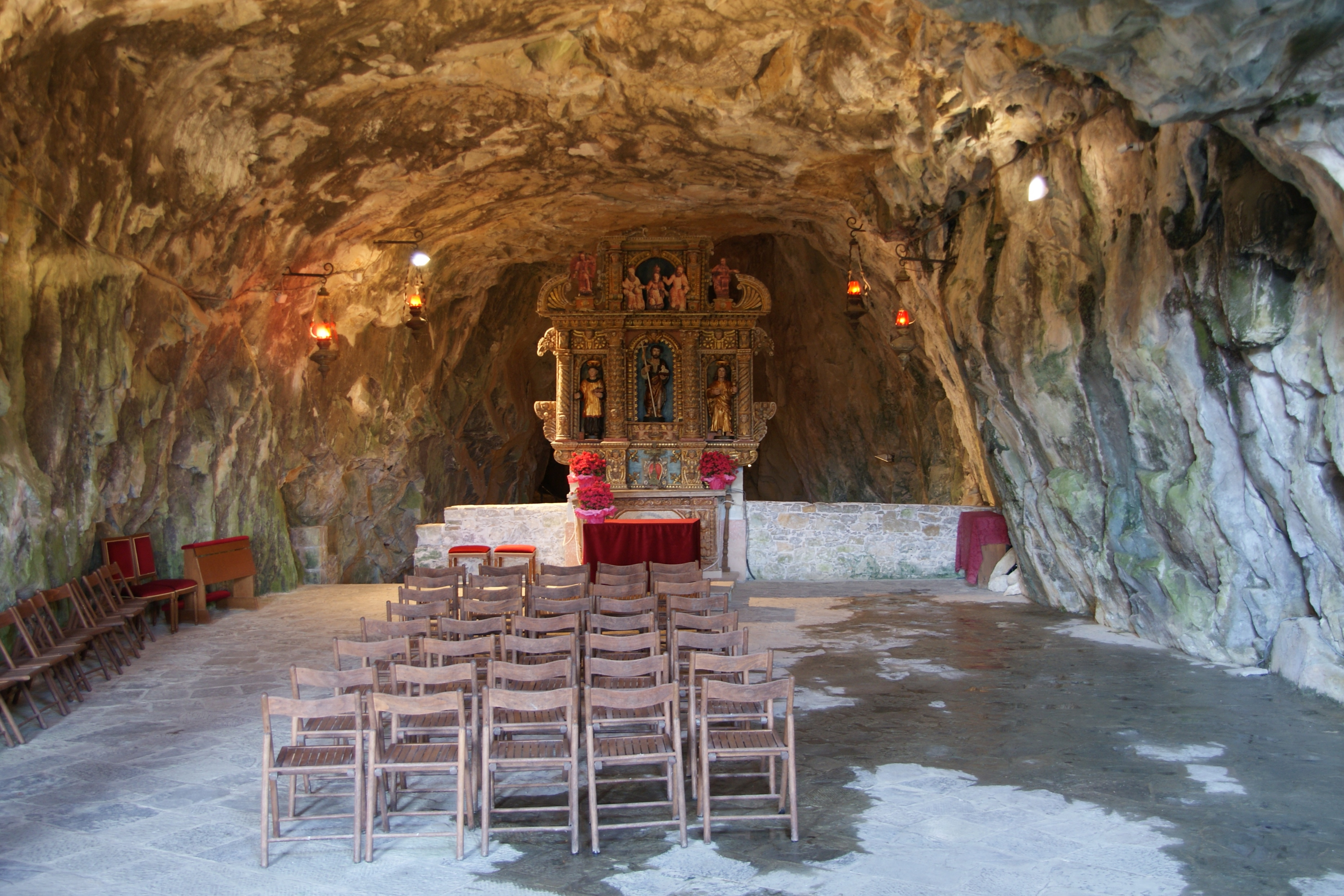 Cave San Giovanni d'Antro near Pulfero, Province of Udine